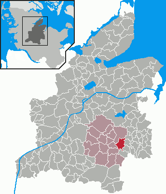 Locator maps of municipalities in Schleswig-Holstein - District Rendsburg-Eckernförde